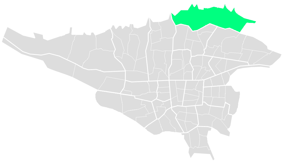 Region 1 of Tehran